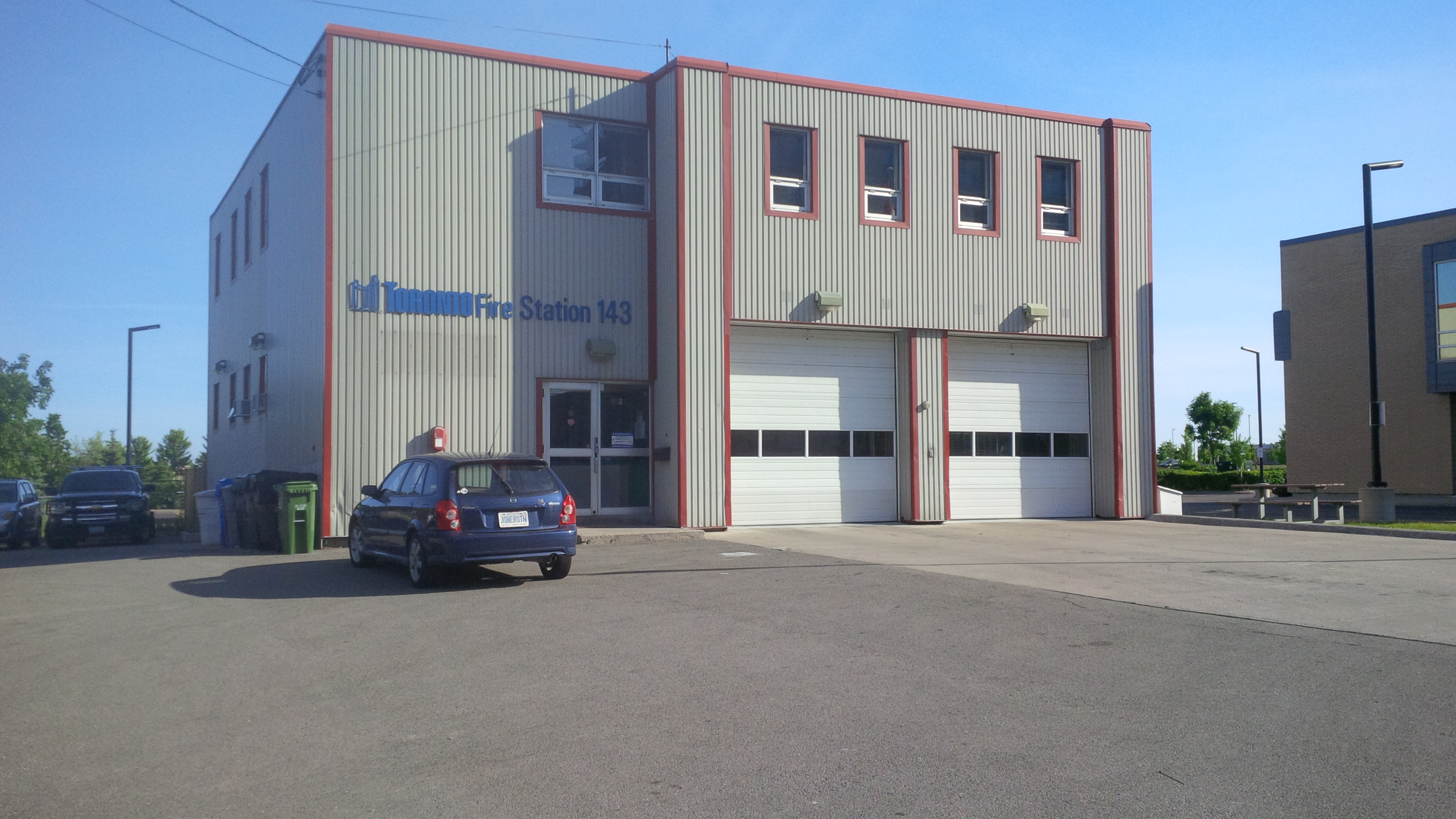 Station 143 on Sheppard Ave near Downsview Park